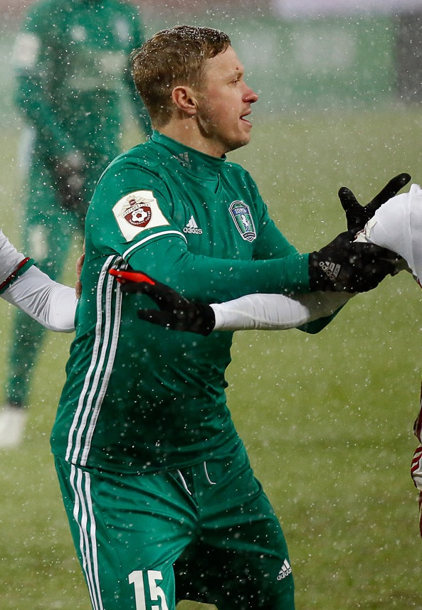 Yevgeni Balyaikin with FC Tom Tomsk in a game against FC Lokomotiv Moscow.